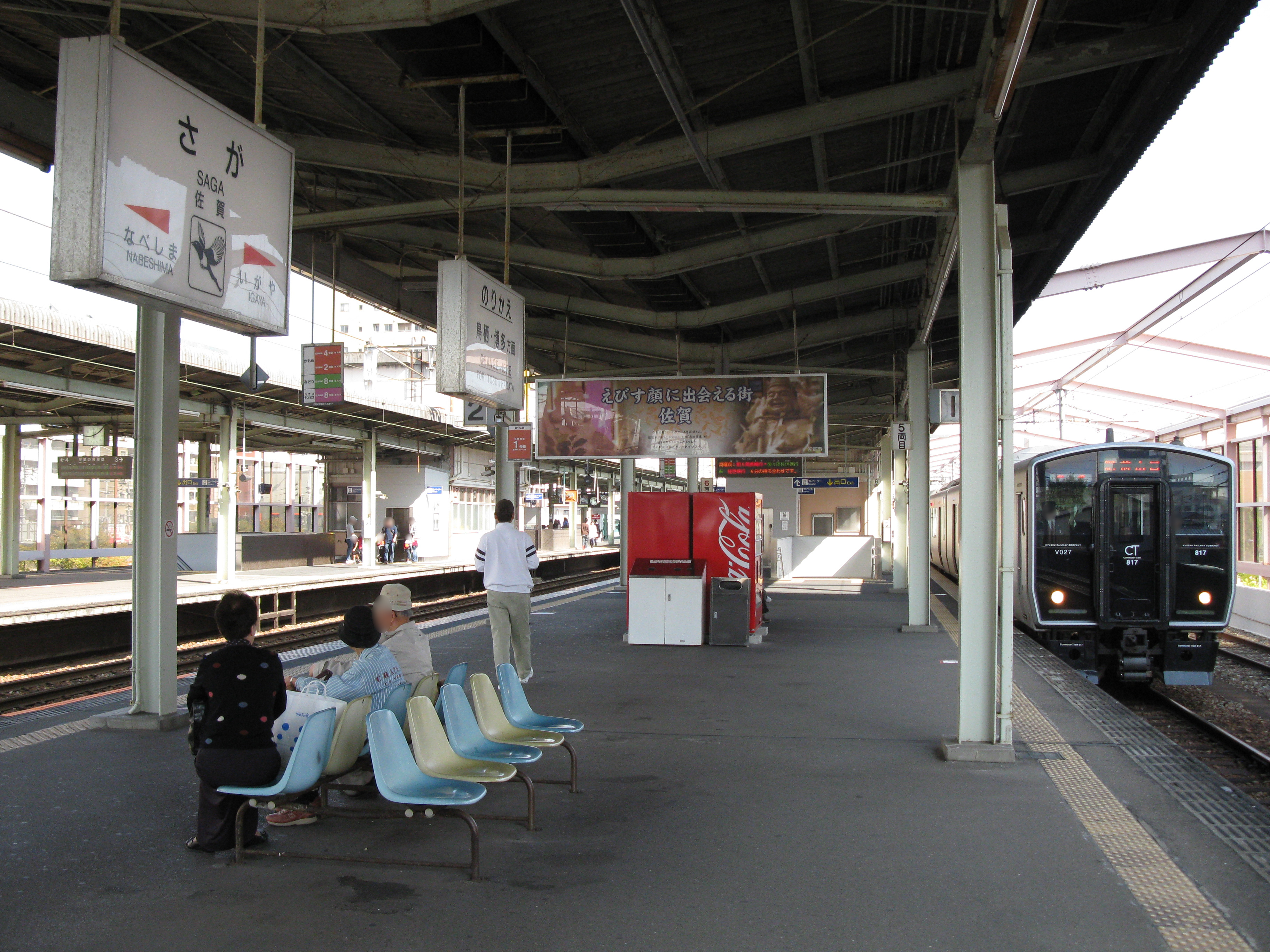 Saga Station no.1 and no.2 platform (Kyushu Railway Nagasaki Main Line)